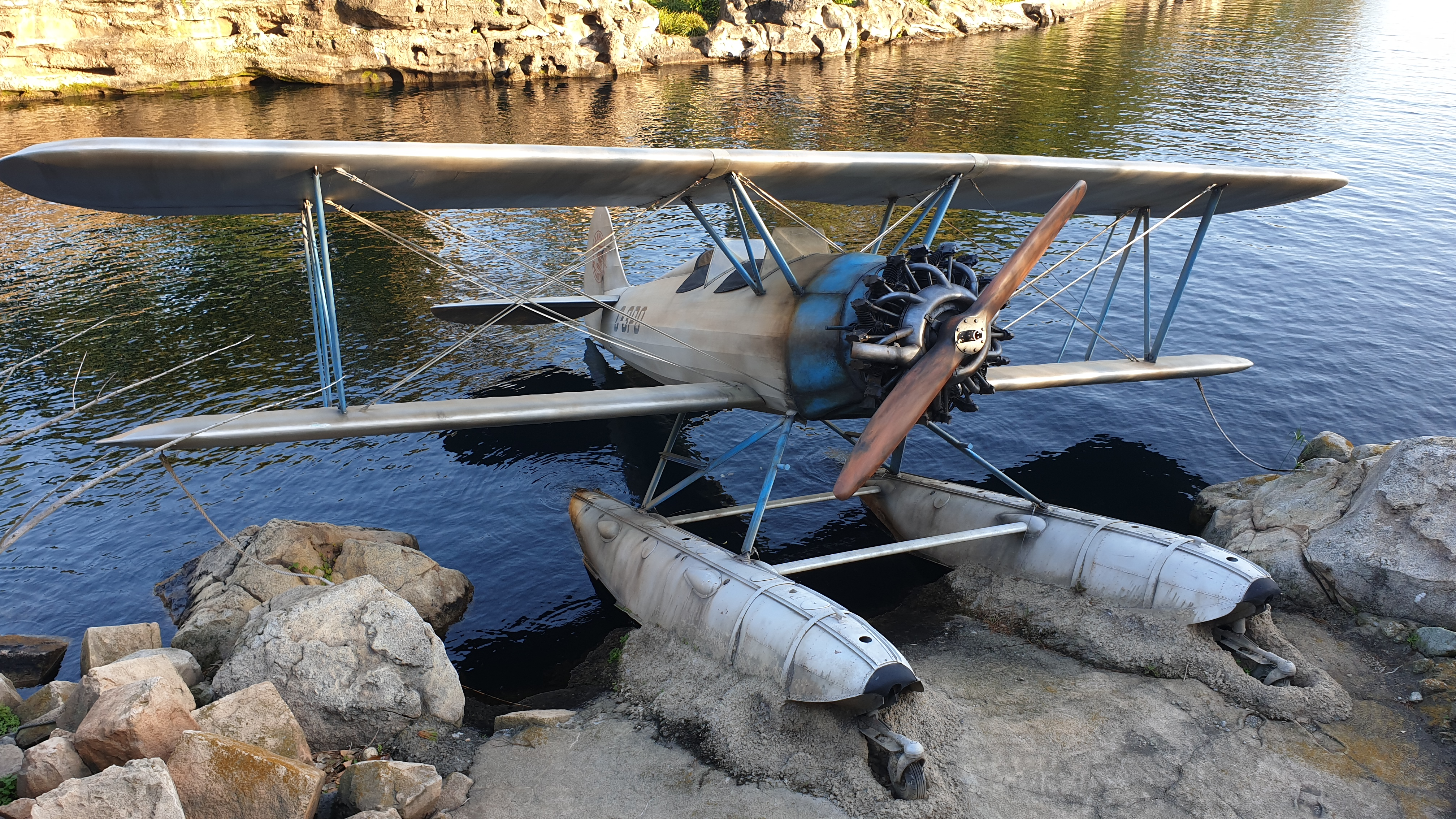 Tokyo DisneySea Indiana Jones’ plane Nov 2019